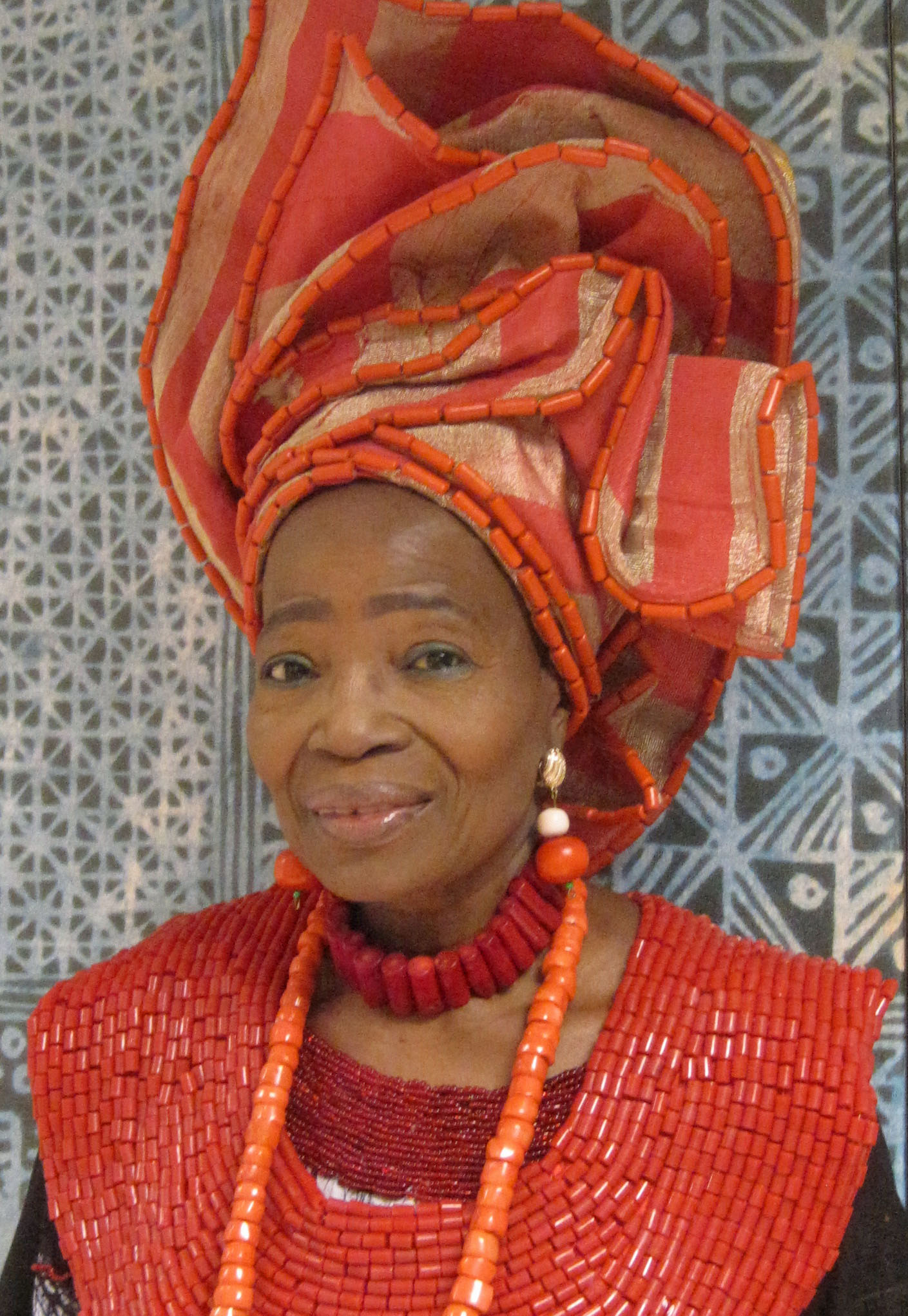 Chief Nike Davies Okundaye at the June 18 press preview of "I Am… Contemporary Women Artists of Africa" at the National Museum of African Art